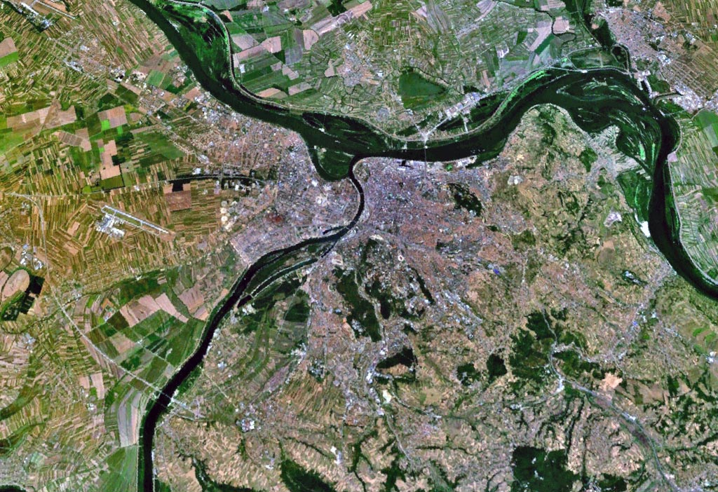 Satellite view of Belgrade